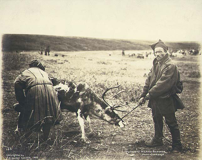 Caption on image: "Laplanders milking reindeer, Port Clarence/Copyrighted by W. Hester, Seattle, 1900" No. 185 appears in lower left hand corner of image Subjects (LCTGM): Reindeer--Alaska--Port Clarence; Milking--Alaska--Port Clarence Subjects (LCSH): Sami (European people)--Alaska--Port Clarence; Ethnic costume--Alaska--Port Clarence